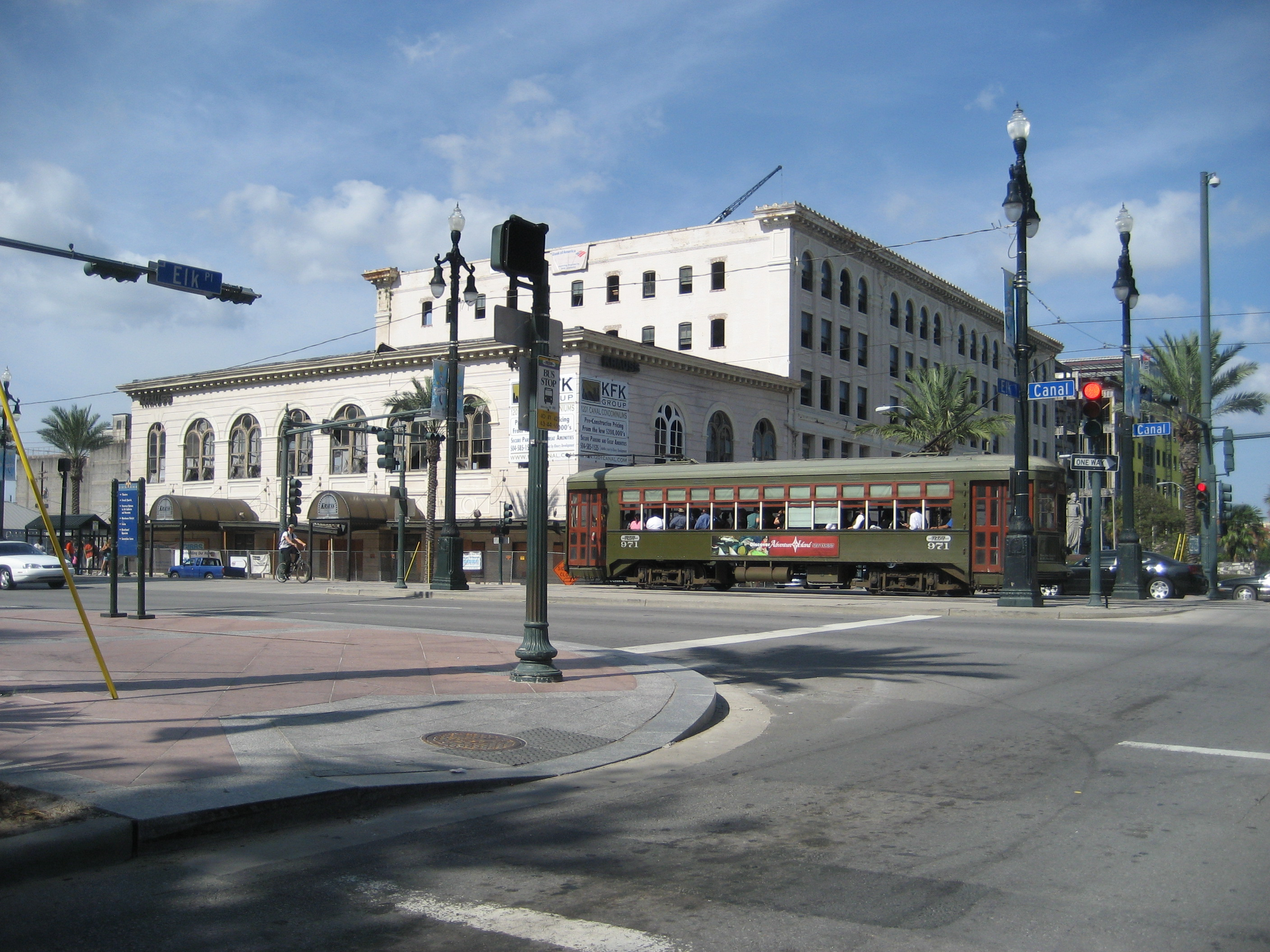 Canal Street New Orleans. Streetcar passing the Krauss Building.